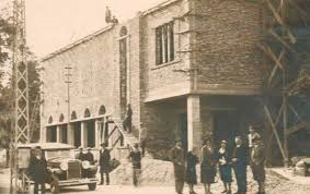 House of Arts and Printing in Plovdiv